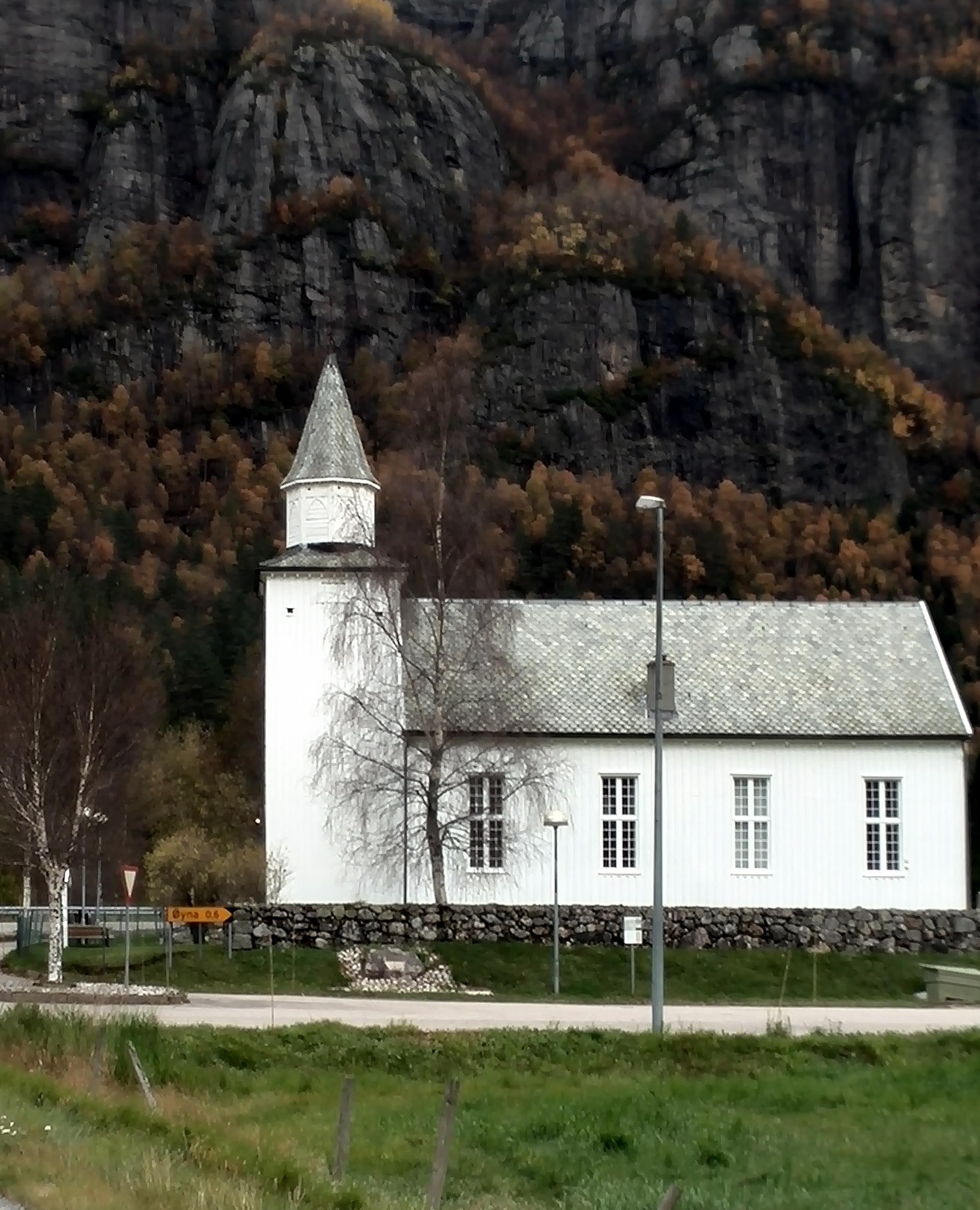 Lunde church in Sirdal, Norway, from 1873. Arch. Hans Ditlev Franciscus von Linstow.